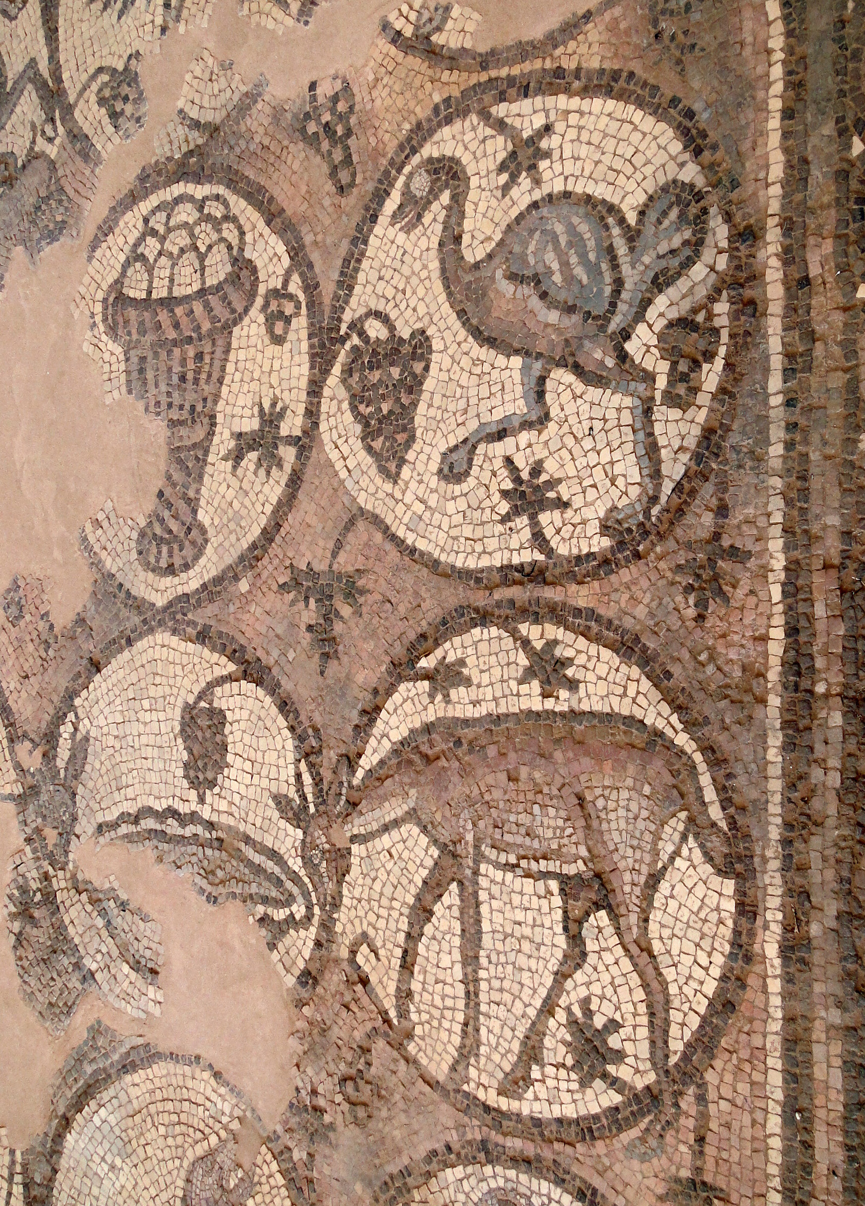 Mosaic on the Northern Aisle floor of the Byzantine Church of Petra, Jordan